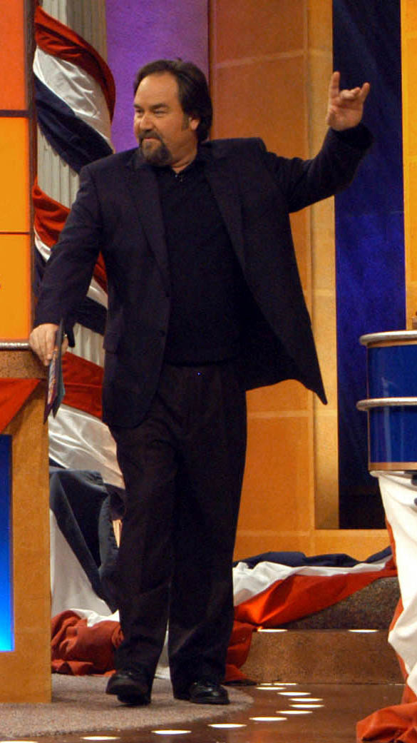 Richard Karn in a special Family Feud featuring an all-USAF team